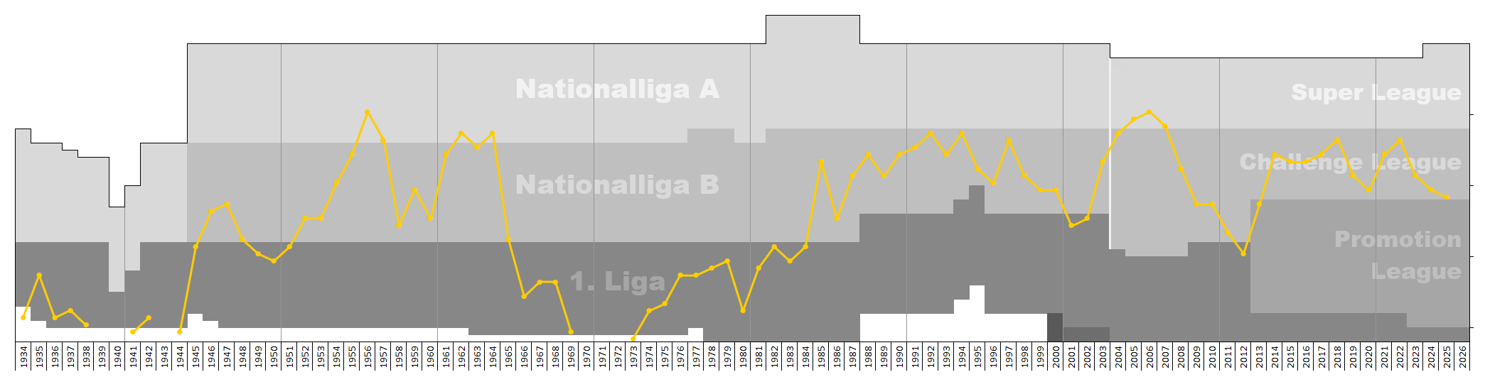 Chart of end-season table positions for FC Schaffhausen in the Swiss football league system. Data source: RSSSF